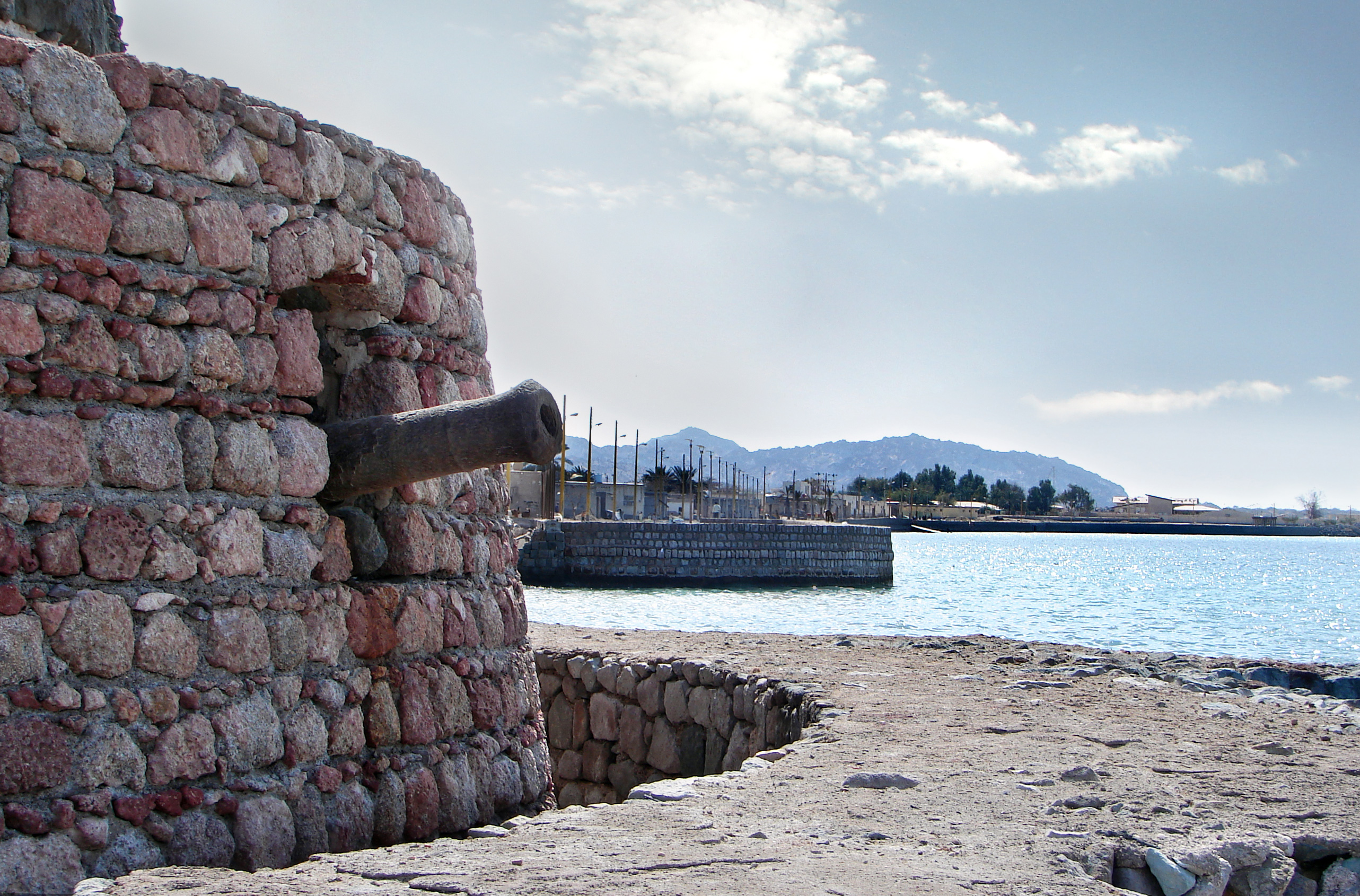 This is the western watchtower of the Portuguese castle the artillery is the as what I shoot from inside the tower here .